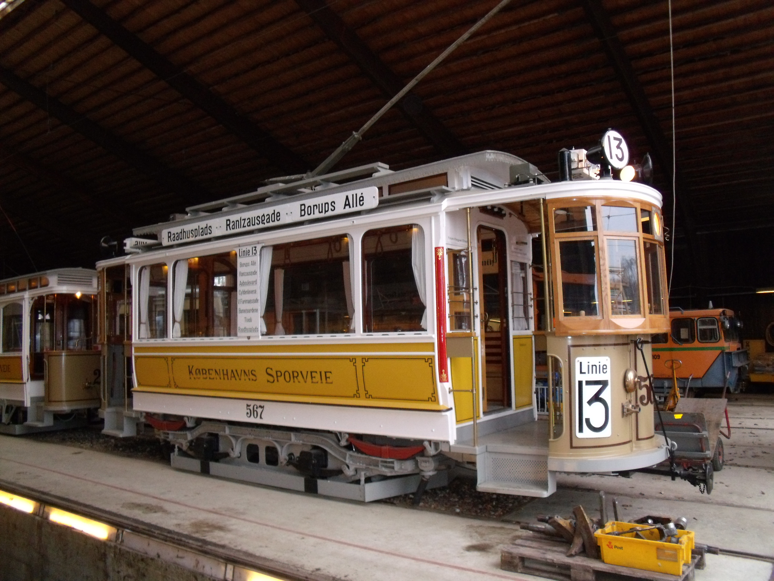 The tramway museum Sporvejsmuseet Skjoldenæsholm in Denmark open for Christmas. Old tram of Copenhagen, KS 567, in Remise 1. The line number 13 is due to the recent release of a book about the Copenhagen tram line 13.